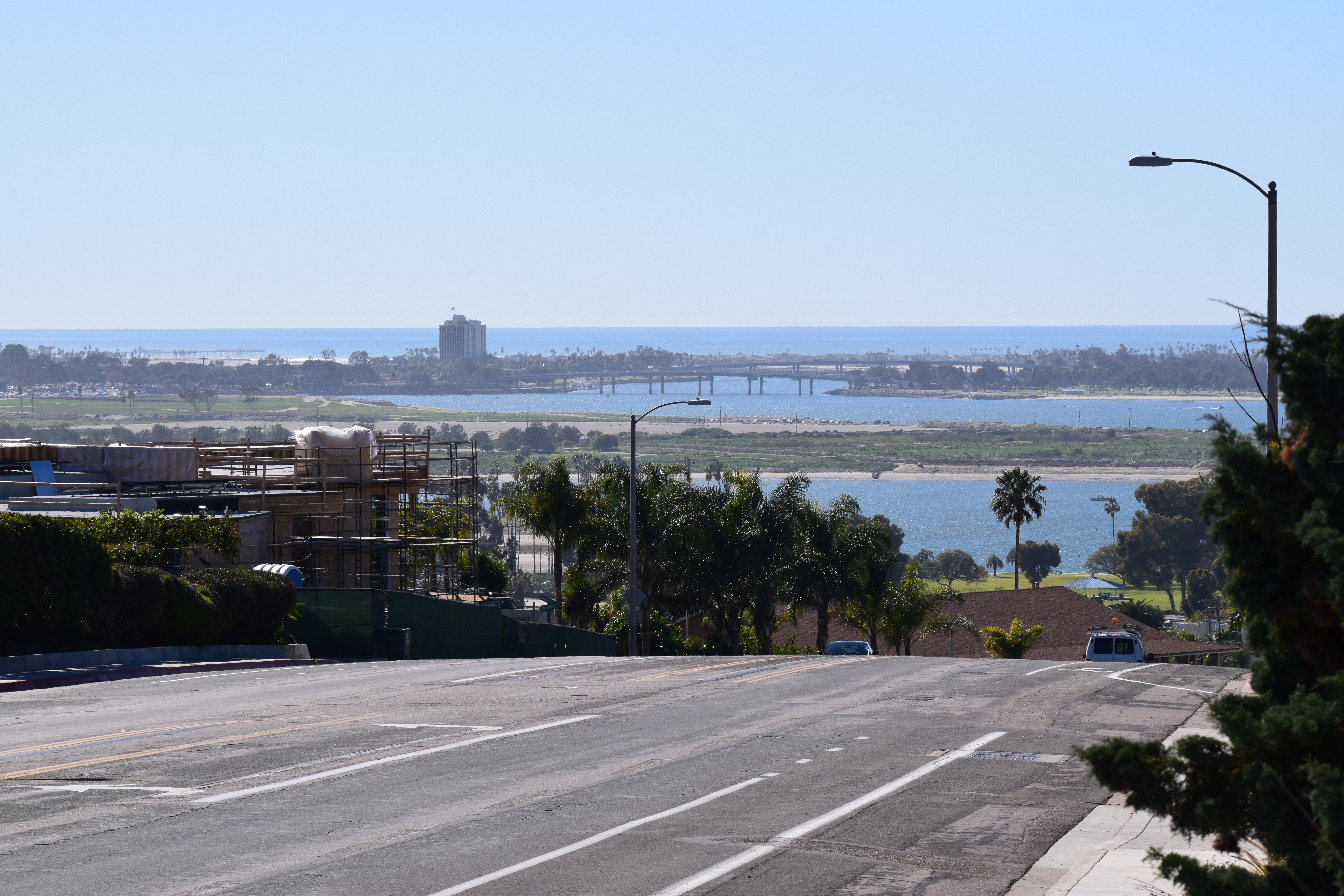 View looking west on Clairemeont Drive, San Diego